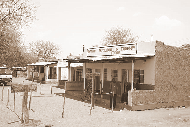 Bus Stop